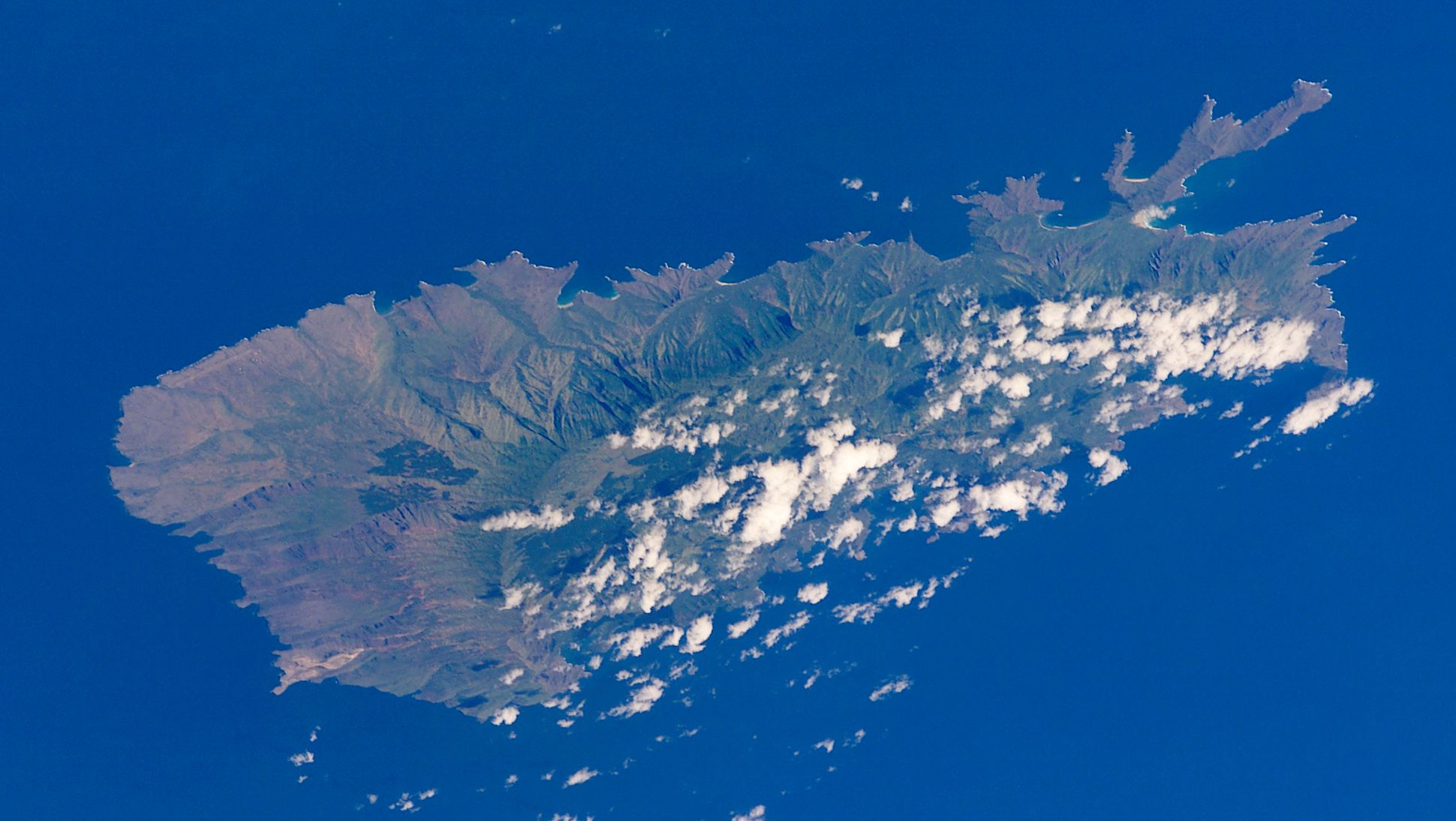 NASA astronaut image of Nuku Hiva, Marquesas Islands, French Polynesia